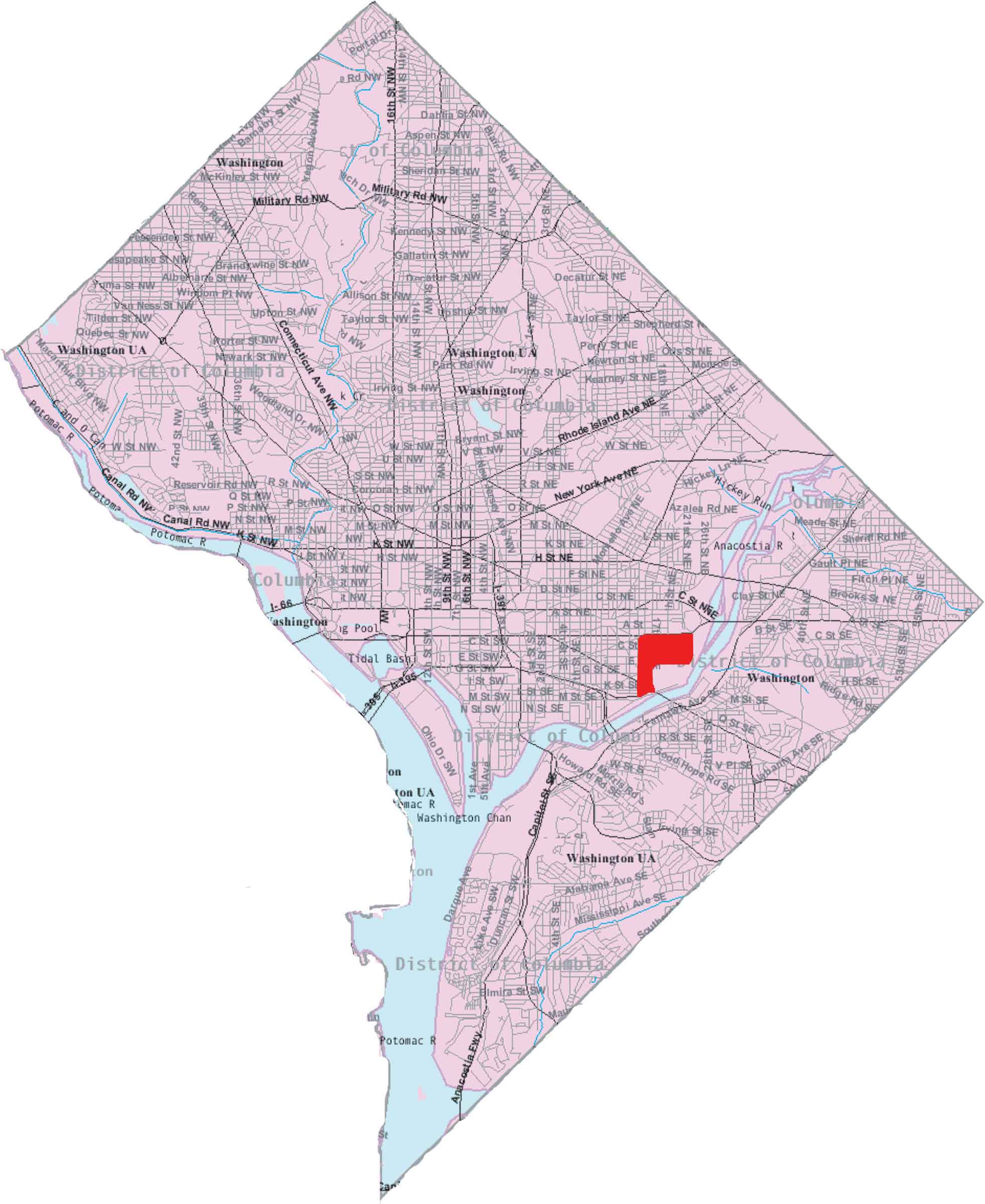 This image is a modified version of a self-generated reference map from the U.S. Census Bureau's American Factfinder at by Wikipedia user Msclguru.